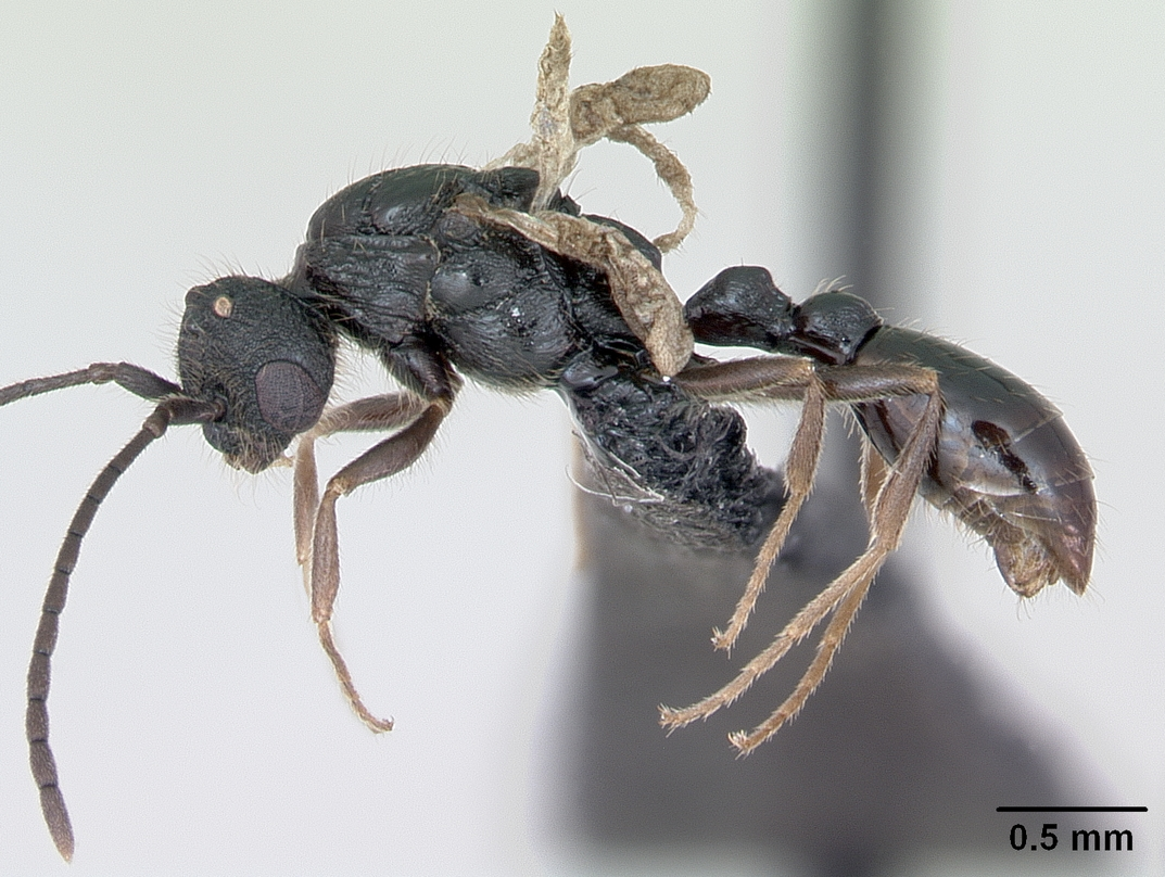 Profile view of ant Leptothorax muscorum specimen casent0173191.